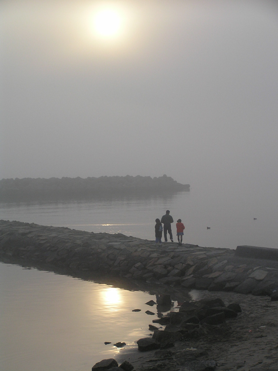 Sea of spring haze.jpg ～photo by Autumn Snake 【おぉたむすねィく探検隊】